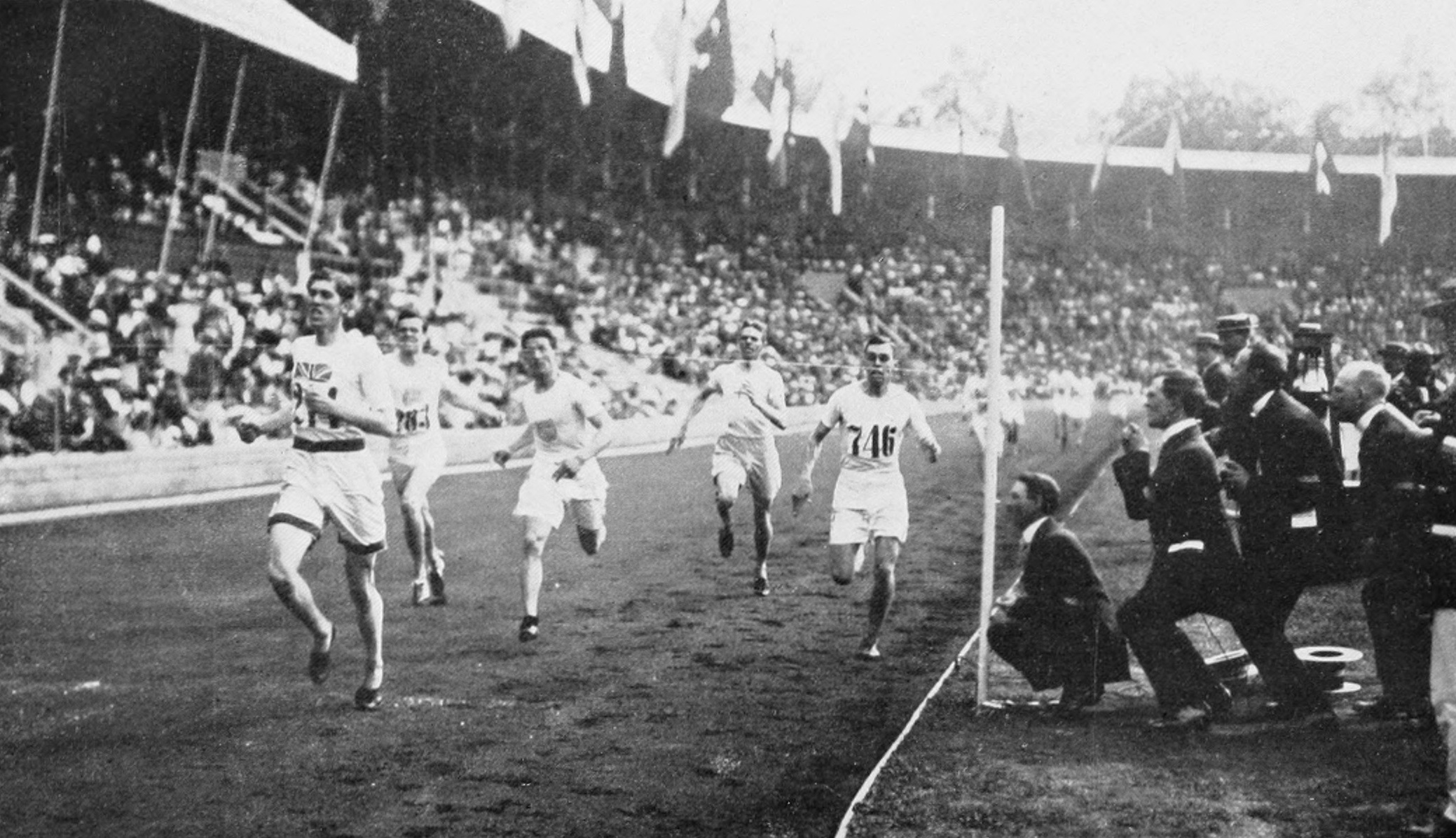 The finish of the men's 1500 metre final at the 1912 Summer Olympics with the winner Arnold Jackson setting a new Olympic record.